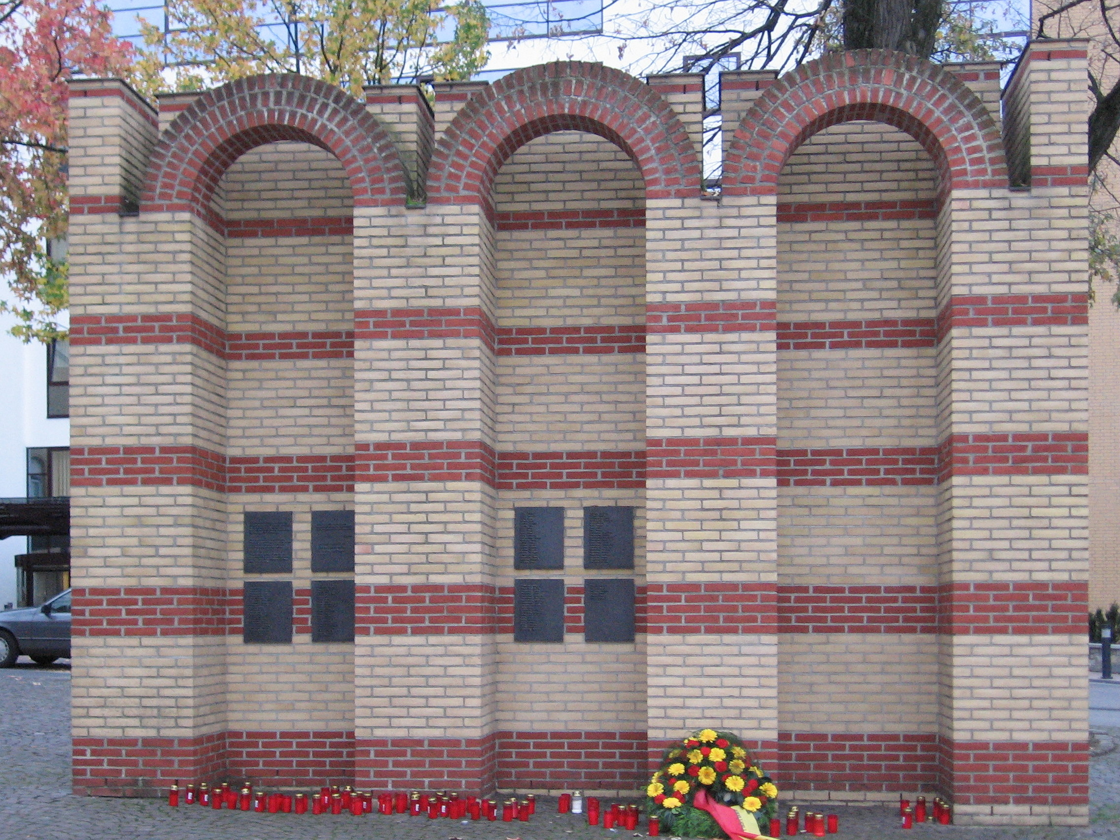 This picture shows the monument for the murdered jews of the german town Paderborn.